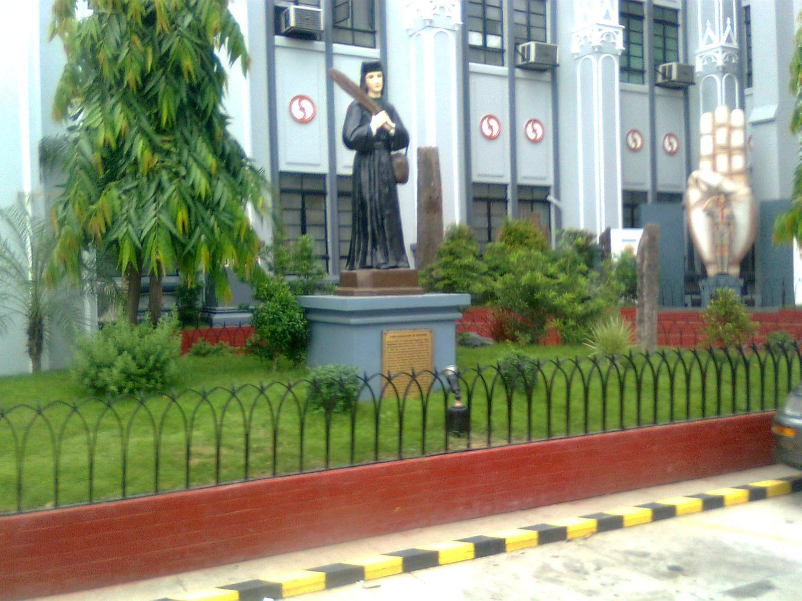 stamagdalena